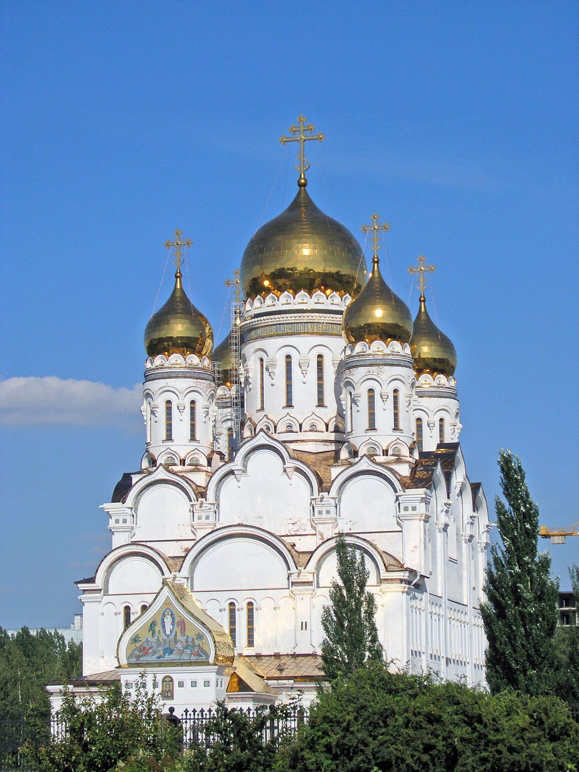 Preobrazhensky Sobor, Togliatti, Russia